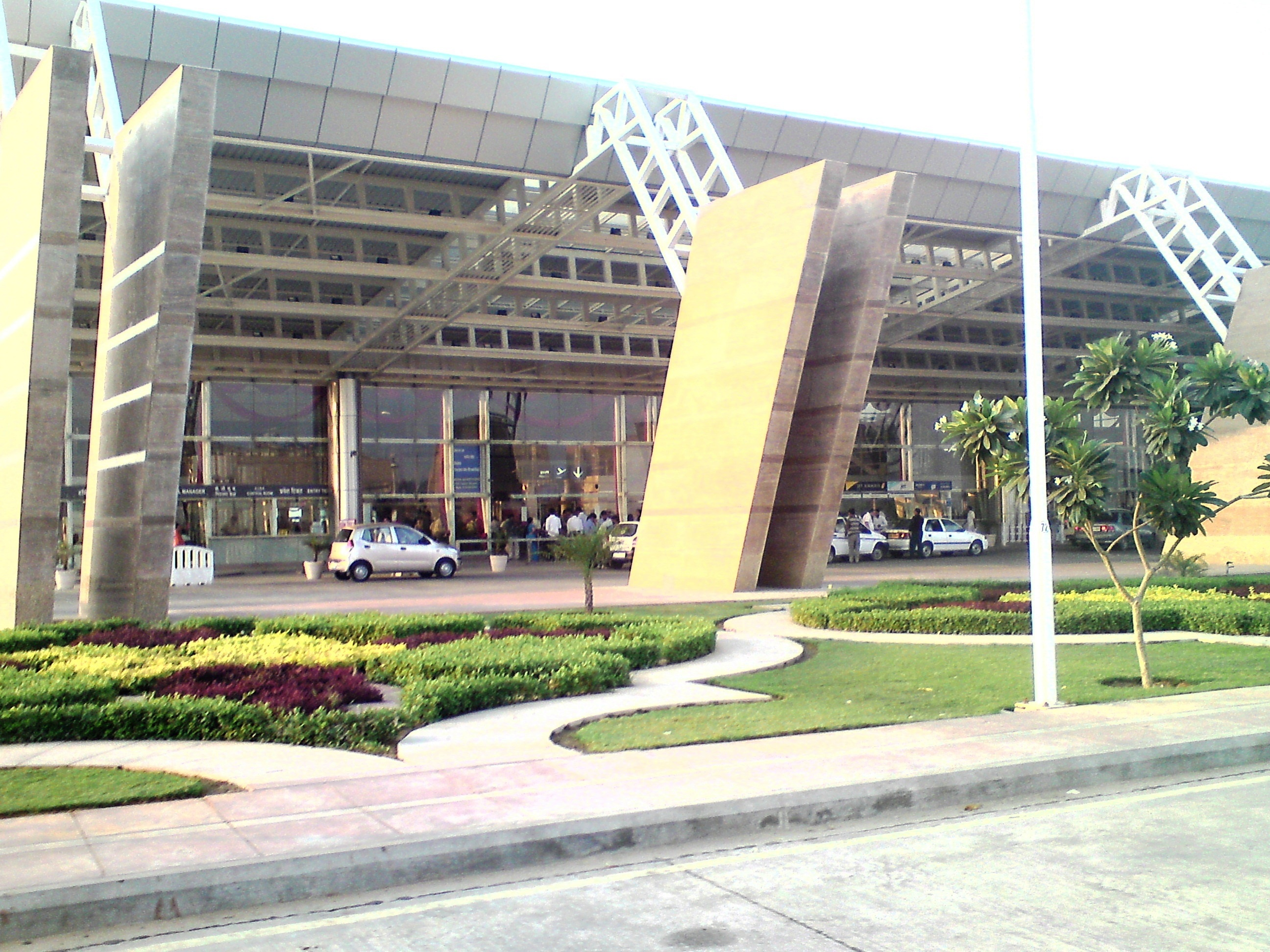 Jaipur International Airport. Morning shot .